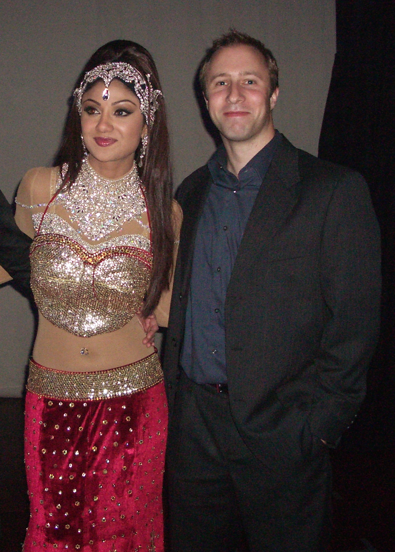 Awesome: After visiting the great show of Miss Bollywood - The Musical, I was able to meet Shilpa Shetty backstage.